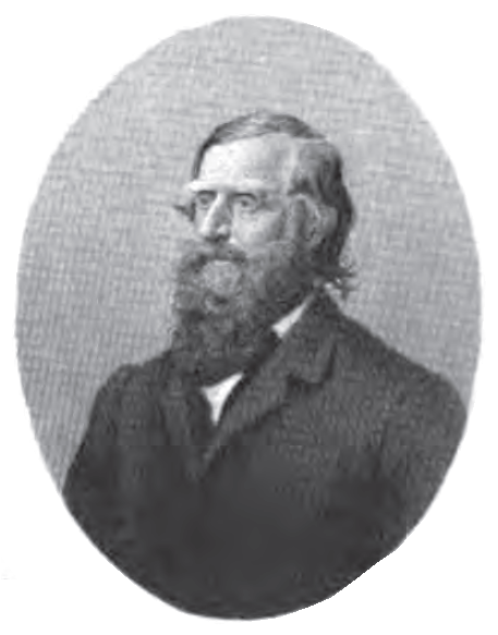 Charles Anderson, Ohio Lieutenant Governor, from Ohio in the War